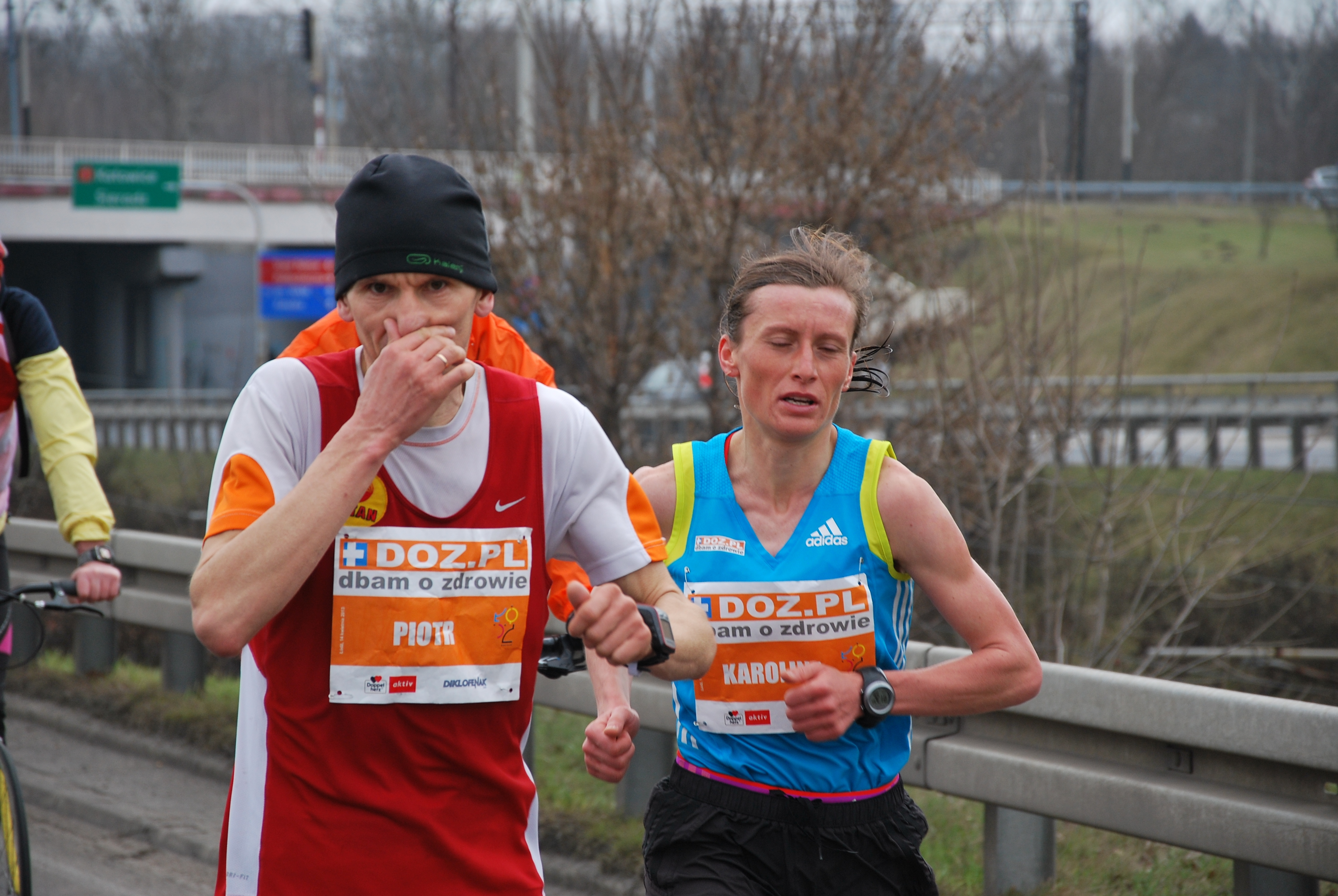 Łódź Dbam o Zdrowie Marathon 2013. Winner in women's category Karolina Jerzyńska, Poland